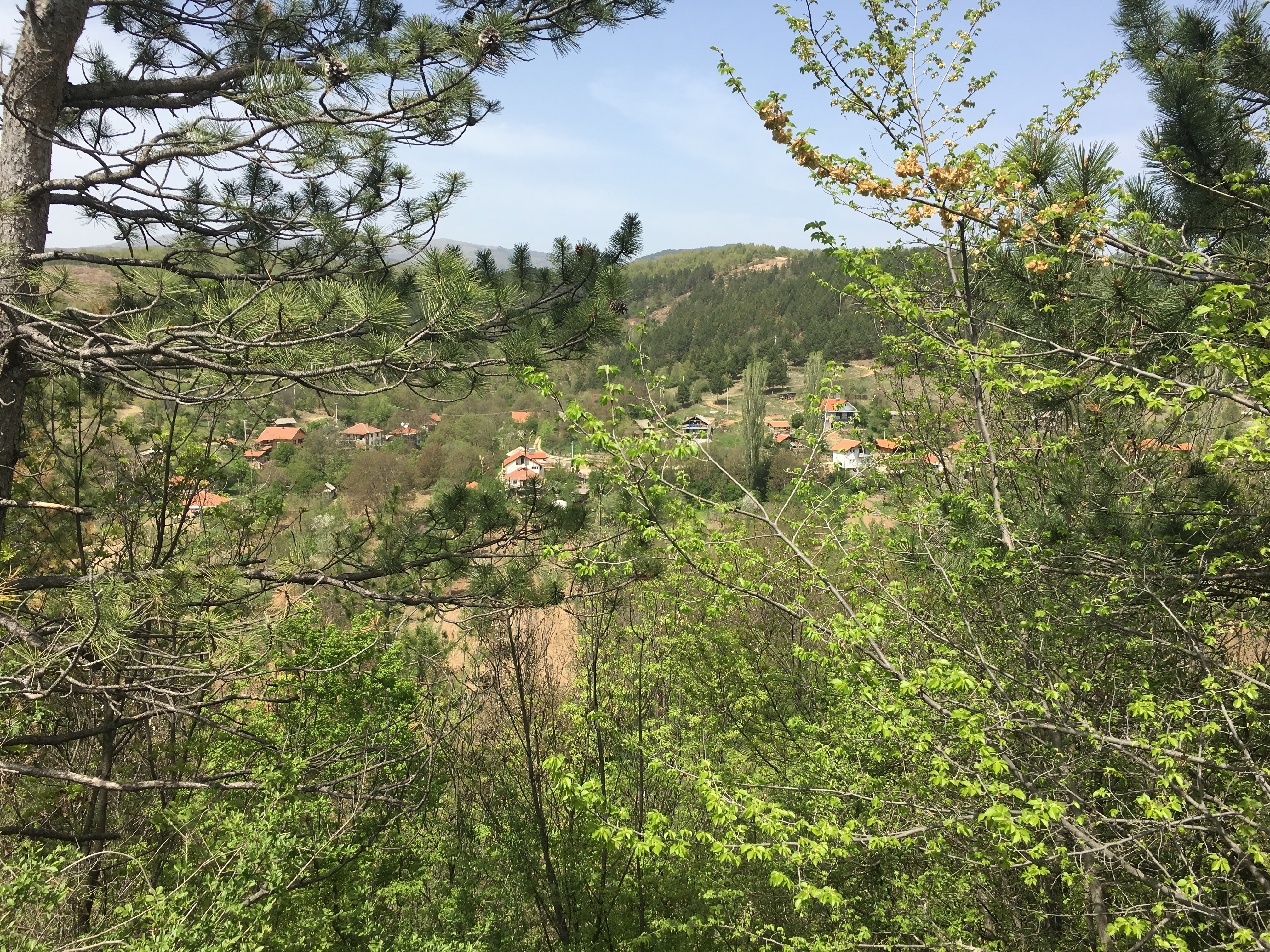 A view of Kokalska Maala of the village of Gradec